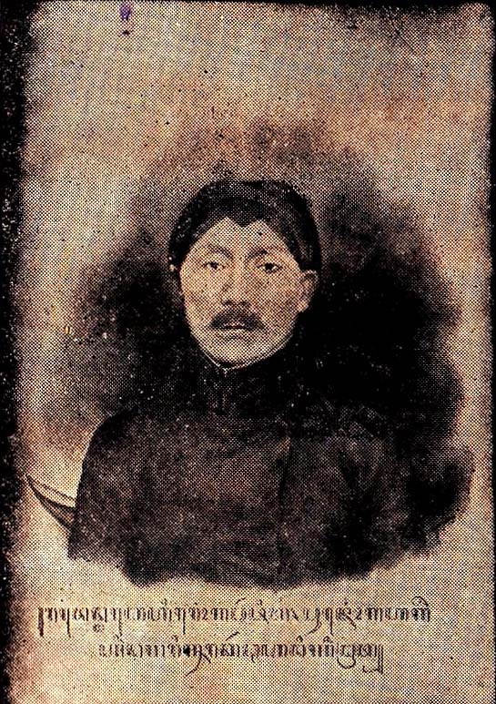 Ranggawarsita in a 19th-century drawing.